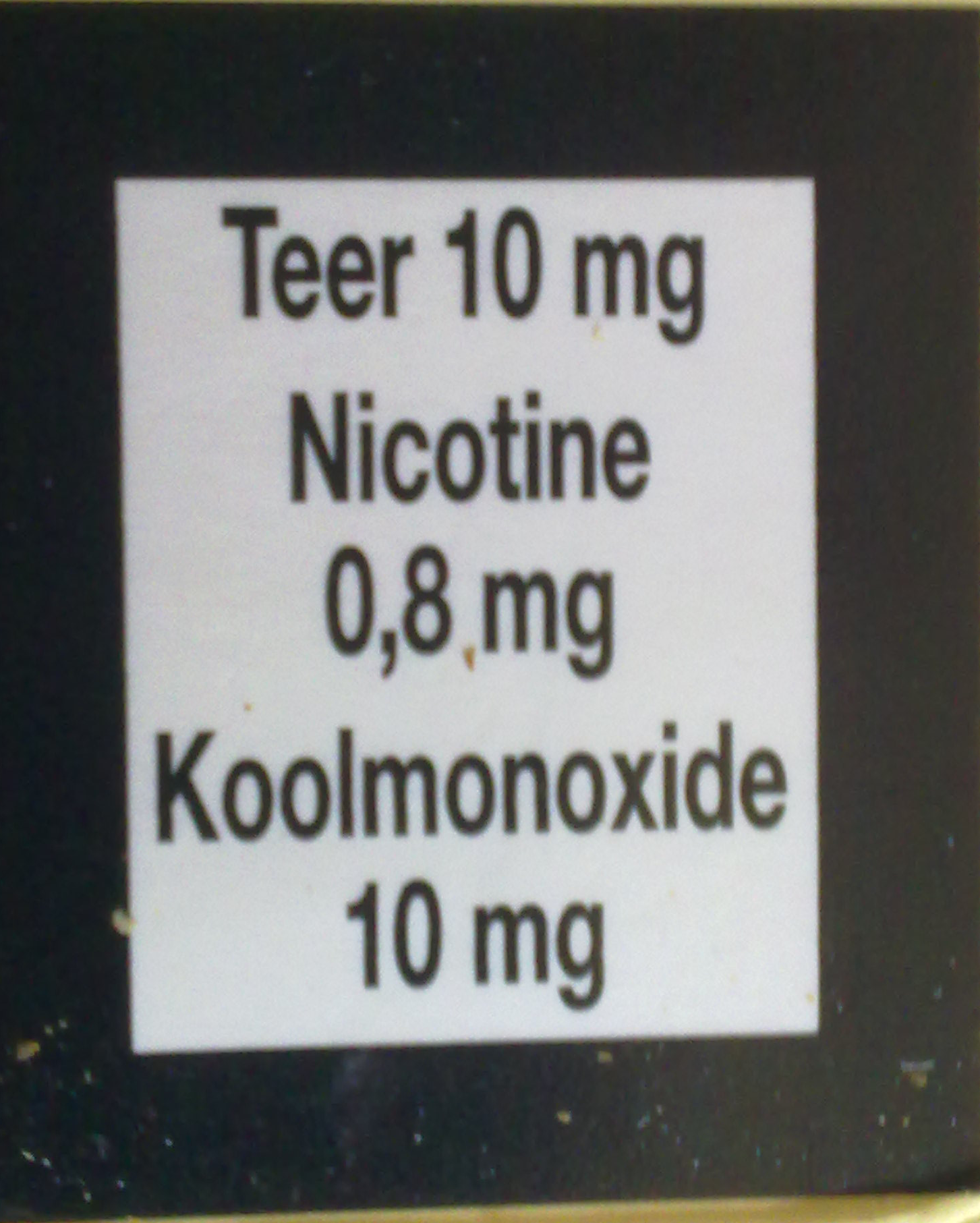 The warning of the contents of a cigaret as noted on a package of Camel (in Dutch)